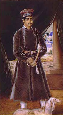 Portrait of Mahtab Chand (1820-79), Zamindar of Burdwan in Bengal. Portrait was painted c.1840-45 and is an example of the "Company Style" of painting.